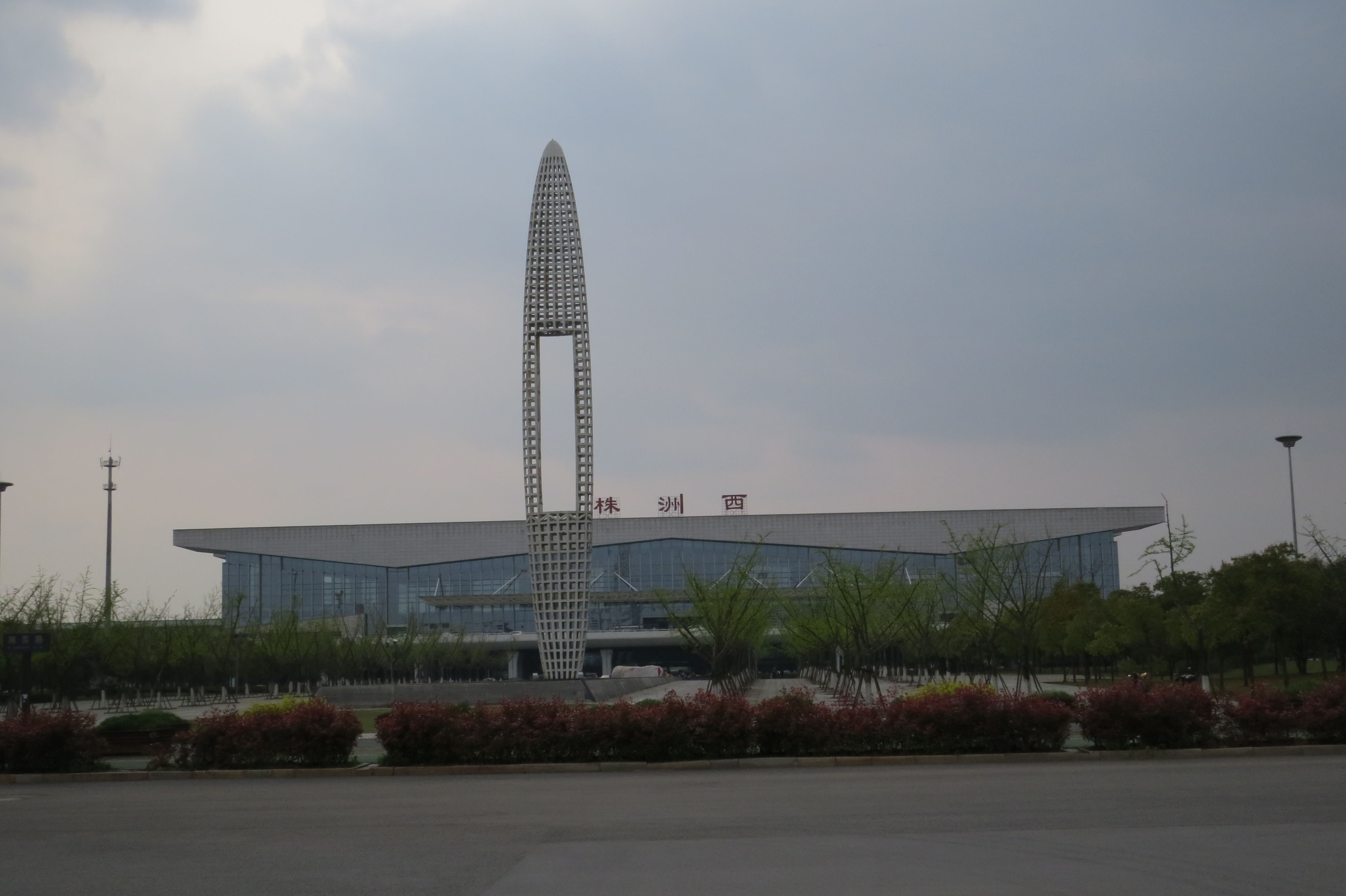 With the Shuttle sculpture.